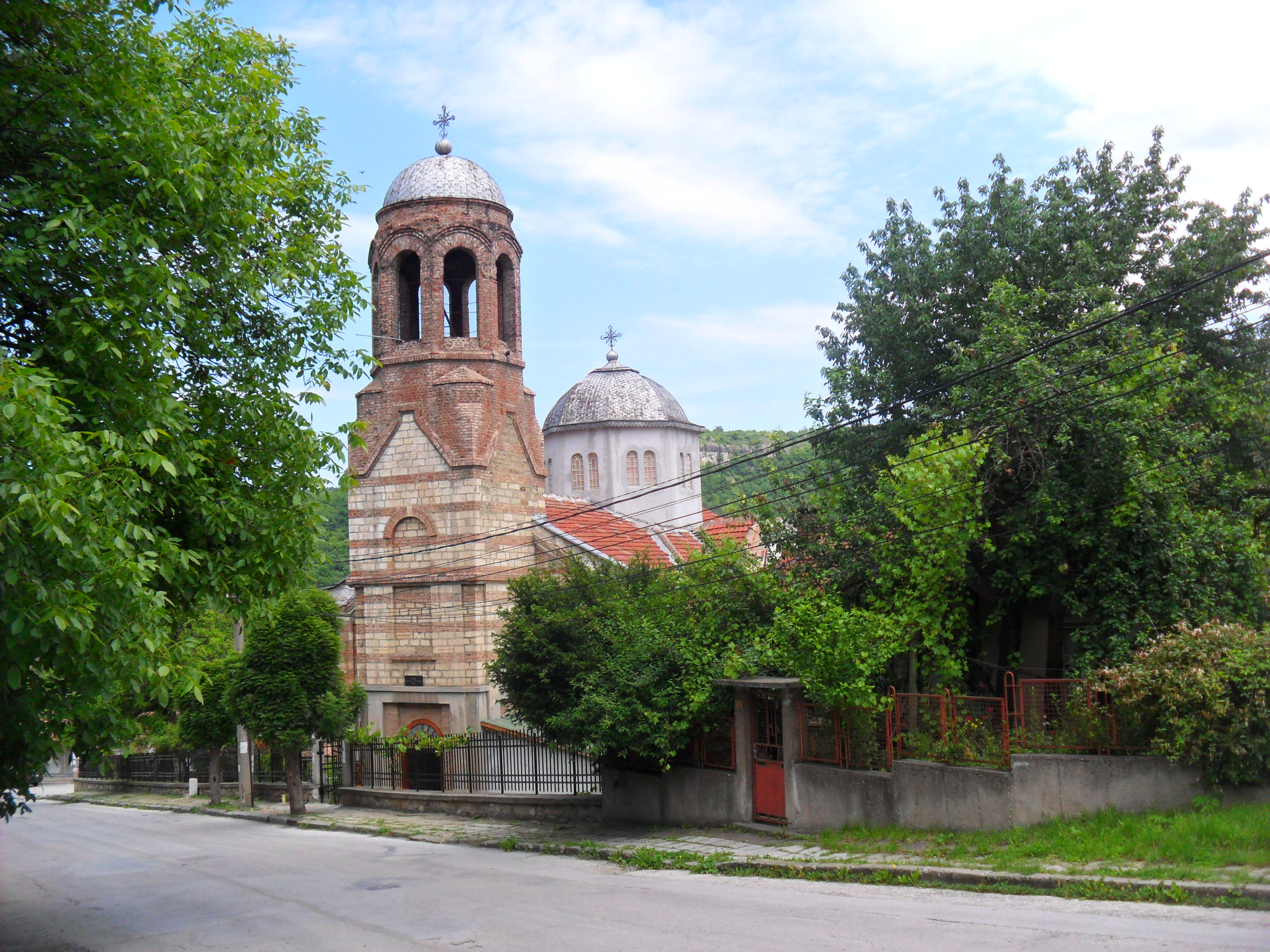 Veliko Tarnovo